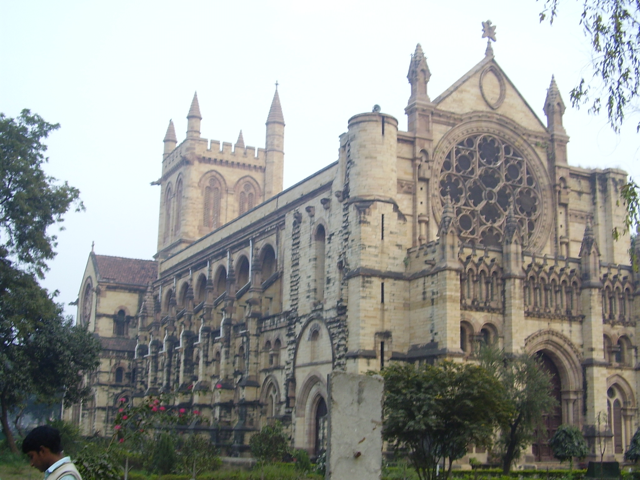 All Saints Cathedral stands majestically at a prominent location in Allahabad, figures among the finest Cathedrals of India